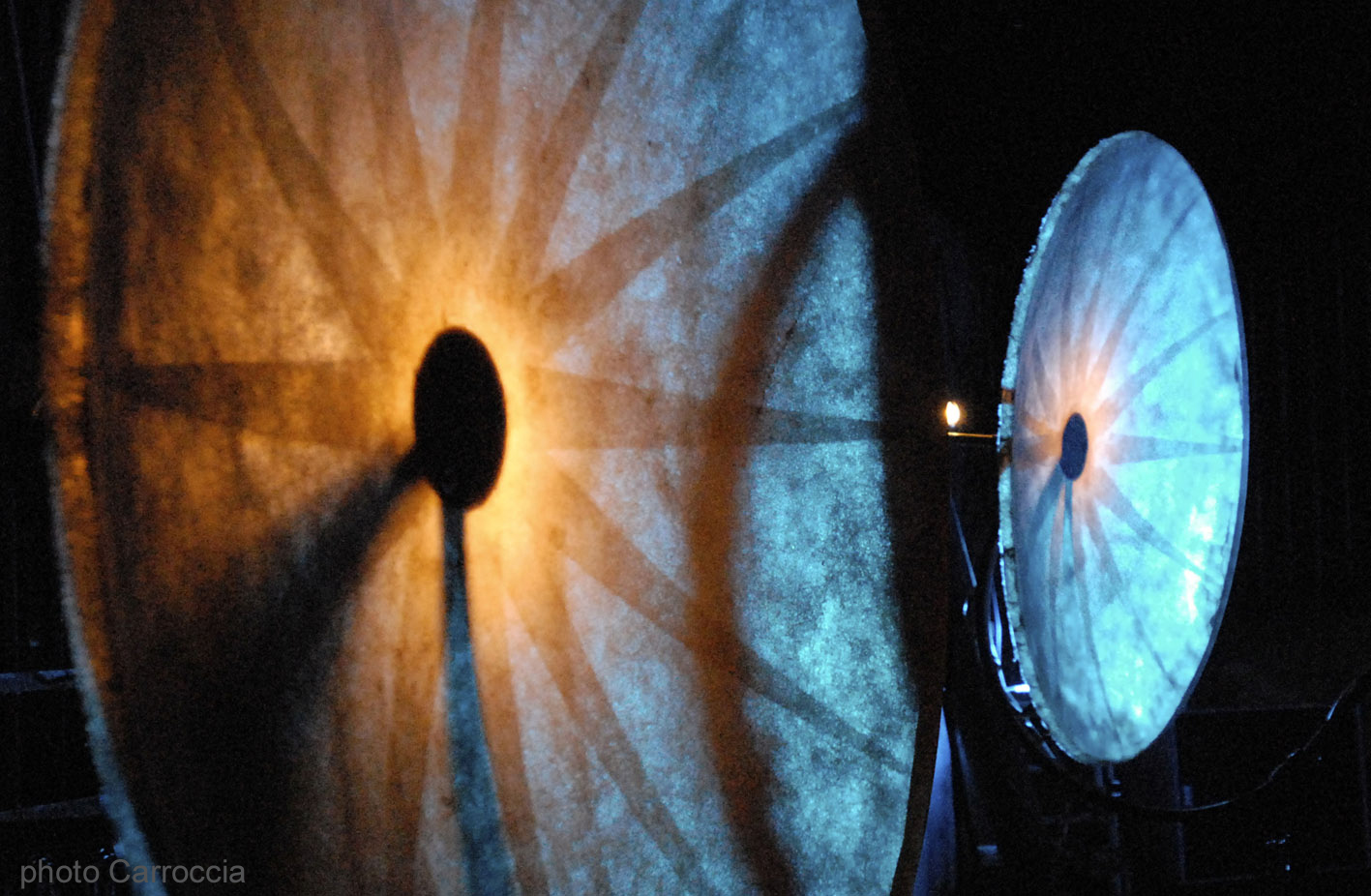 ArteScienza 2006